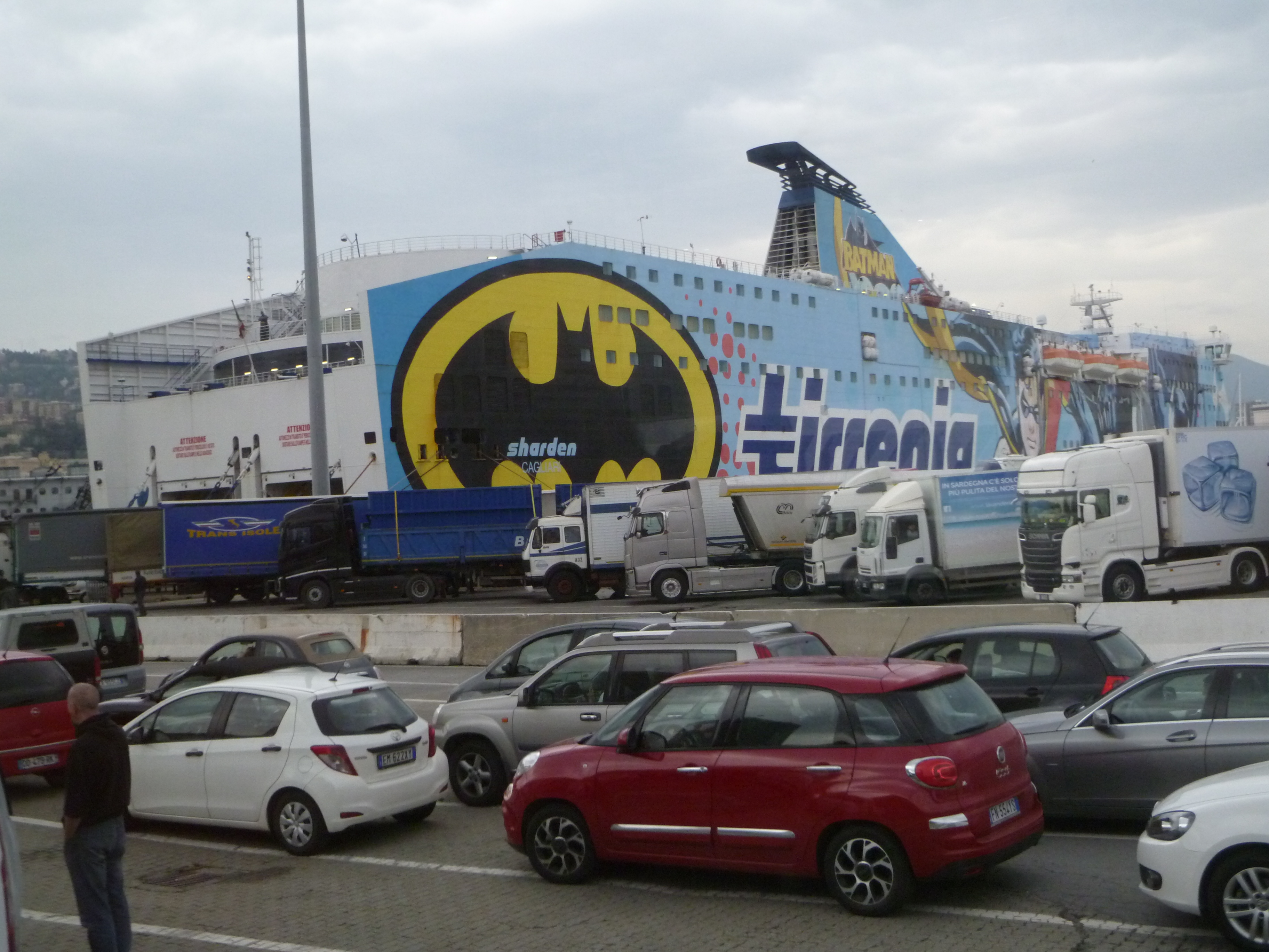 MS Sharden in the Port of Genoa (Italy)